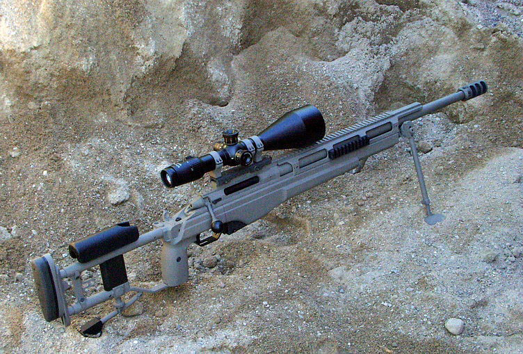 Sako TRG-42 with optional folding stock in desert tan, integrated extended rail system and 510 mm (20.08 in) short barrel.